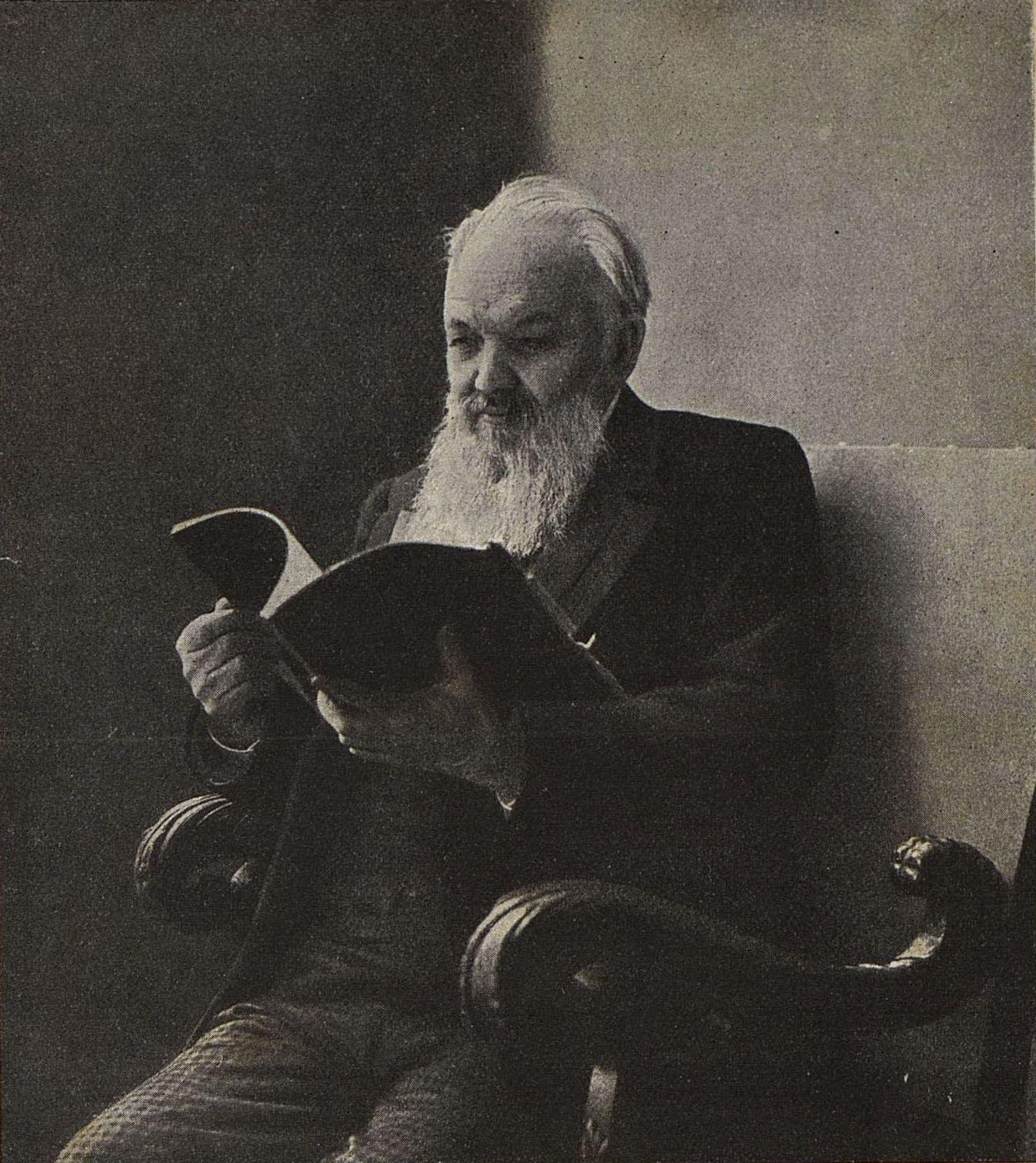 Russian journalist and publisher A. S. Suvorin (1834-1912)